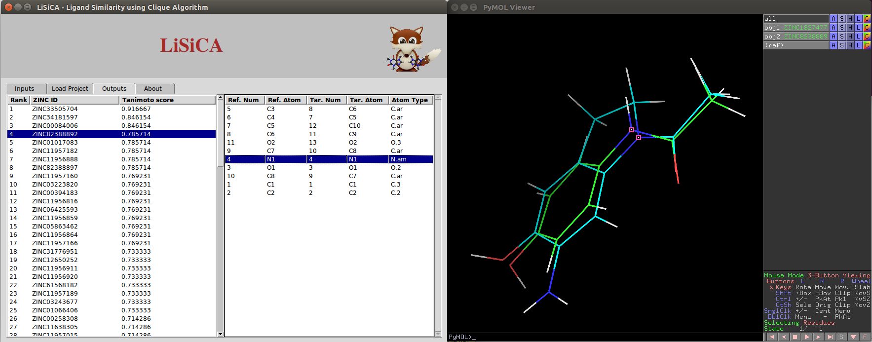 This is an example of an output of the LiSiCA software on 3D molecules.